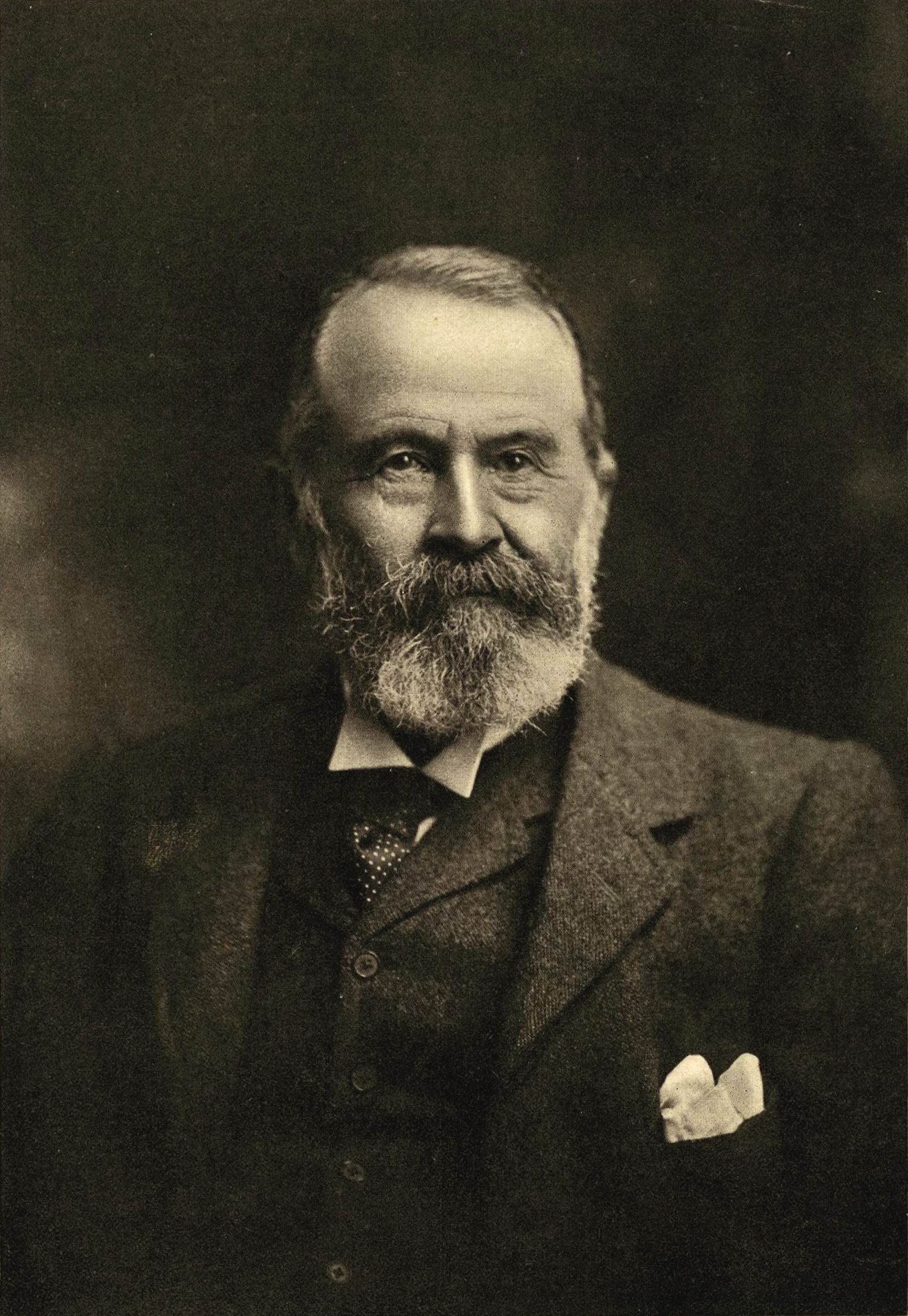 Portrait of Rolf Boldrewood (Thomas Alexander Browne), [ca. 1912]